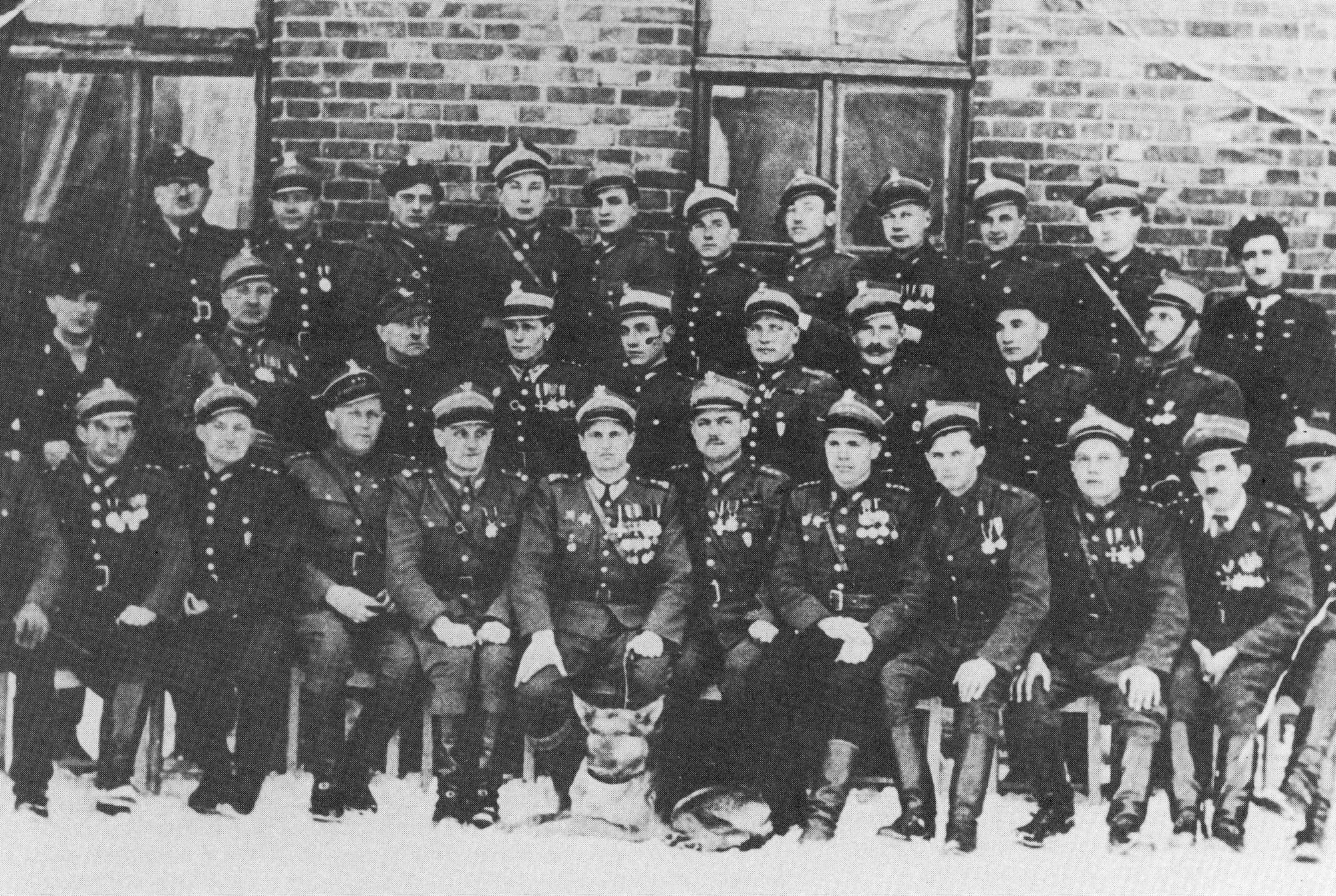 Officers of Polish Cavalry Brigade in 1945